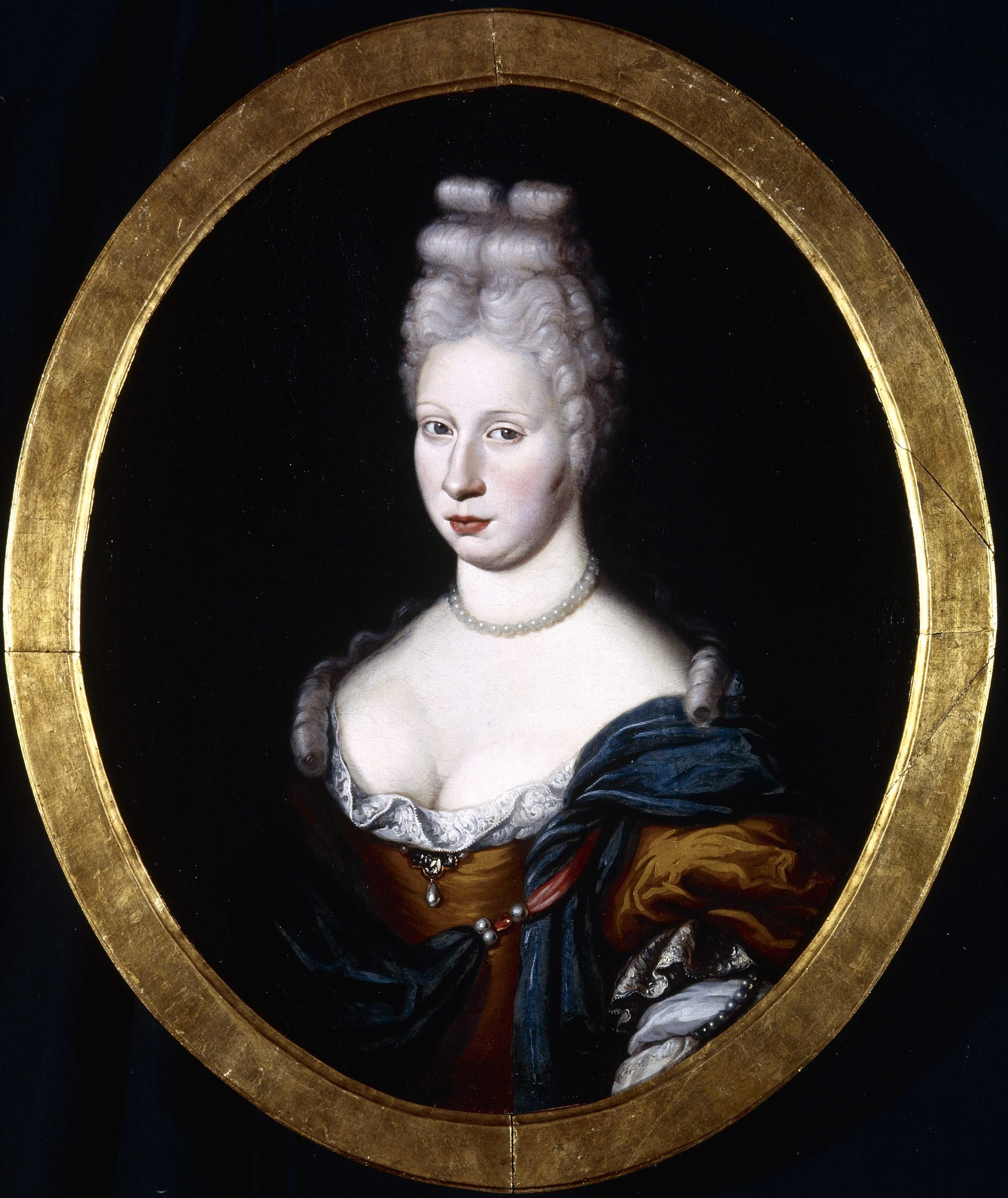 Norwegian Kirsten Leuch (1670–1705), daughter to Oslo businessman and city manager Peder Nielsen Leuch. Kirsten was married to Christen Eskildson Griis (died 1694), who was a businessman in Oslo (Christiania), also married to Peder Iverson Rosenberg (1655–1718).[1]